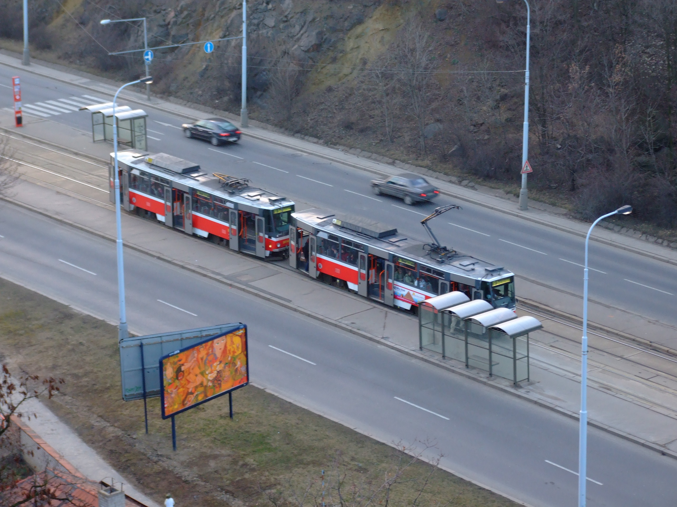 Tram T6A5 in Prague